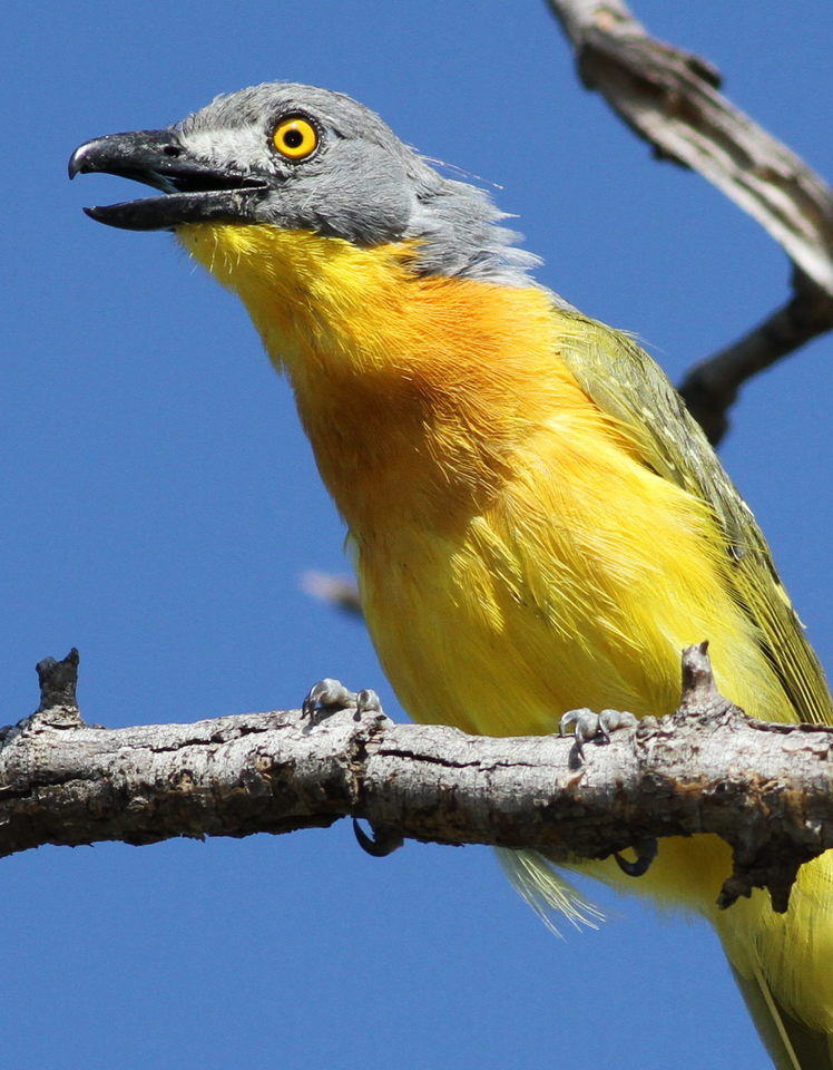 Grey-headed bushshrike, Malaconotus blanchoti at Marakele National Park, Limpopo, South Africa